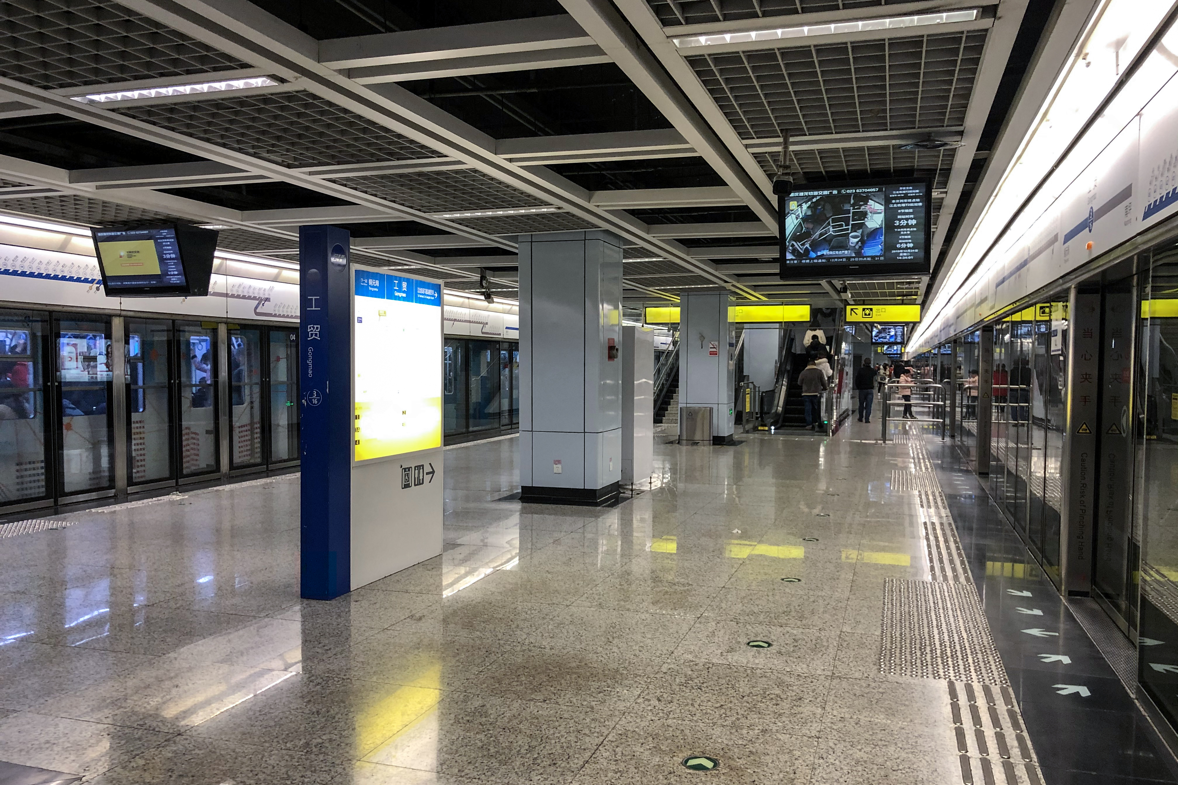 Underground... should have gone further to Sigongli (K4).